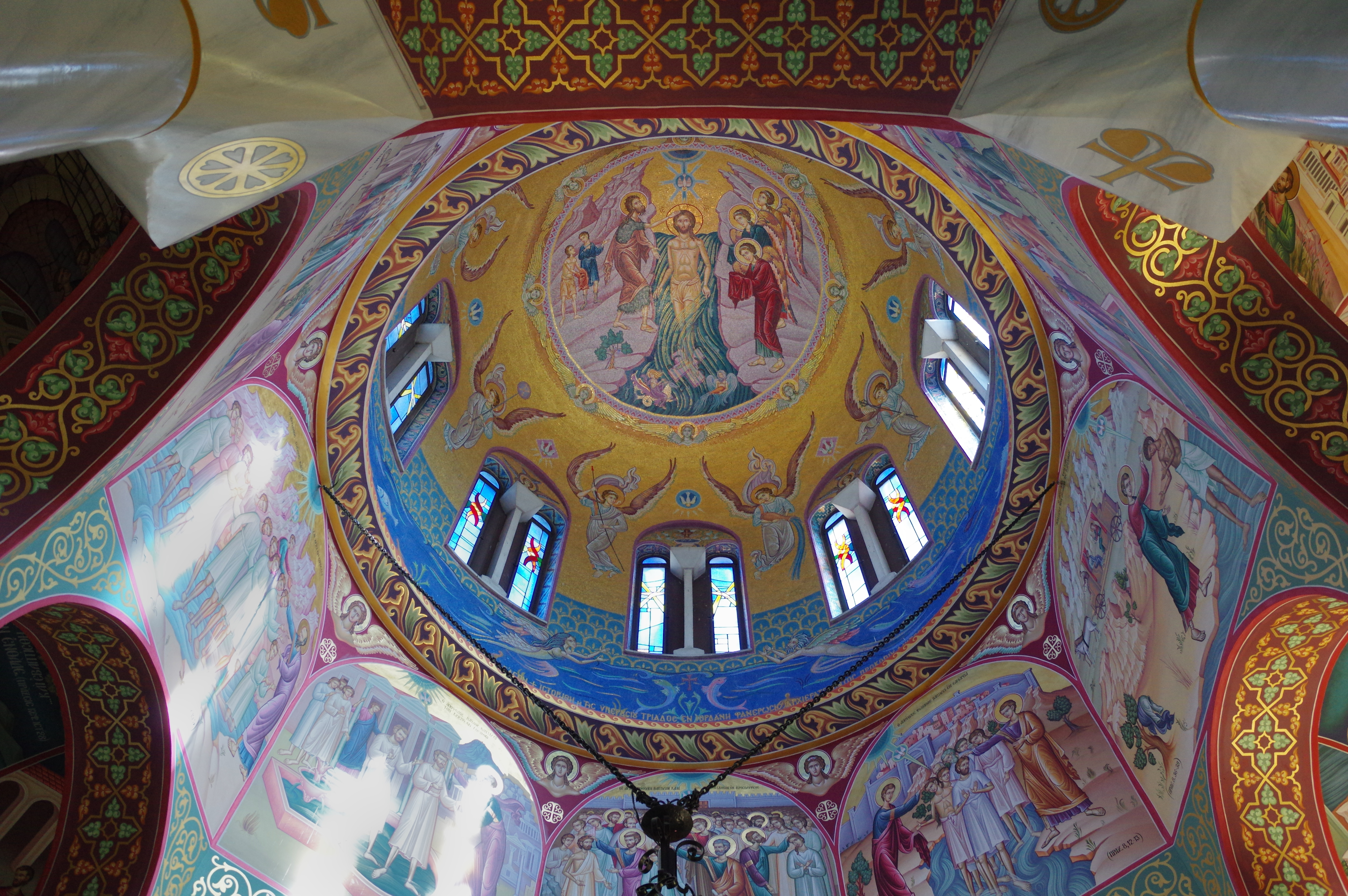 Lydia Baptistery at Phillipi